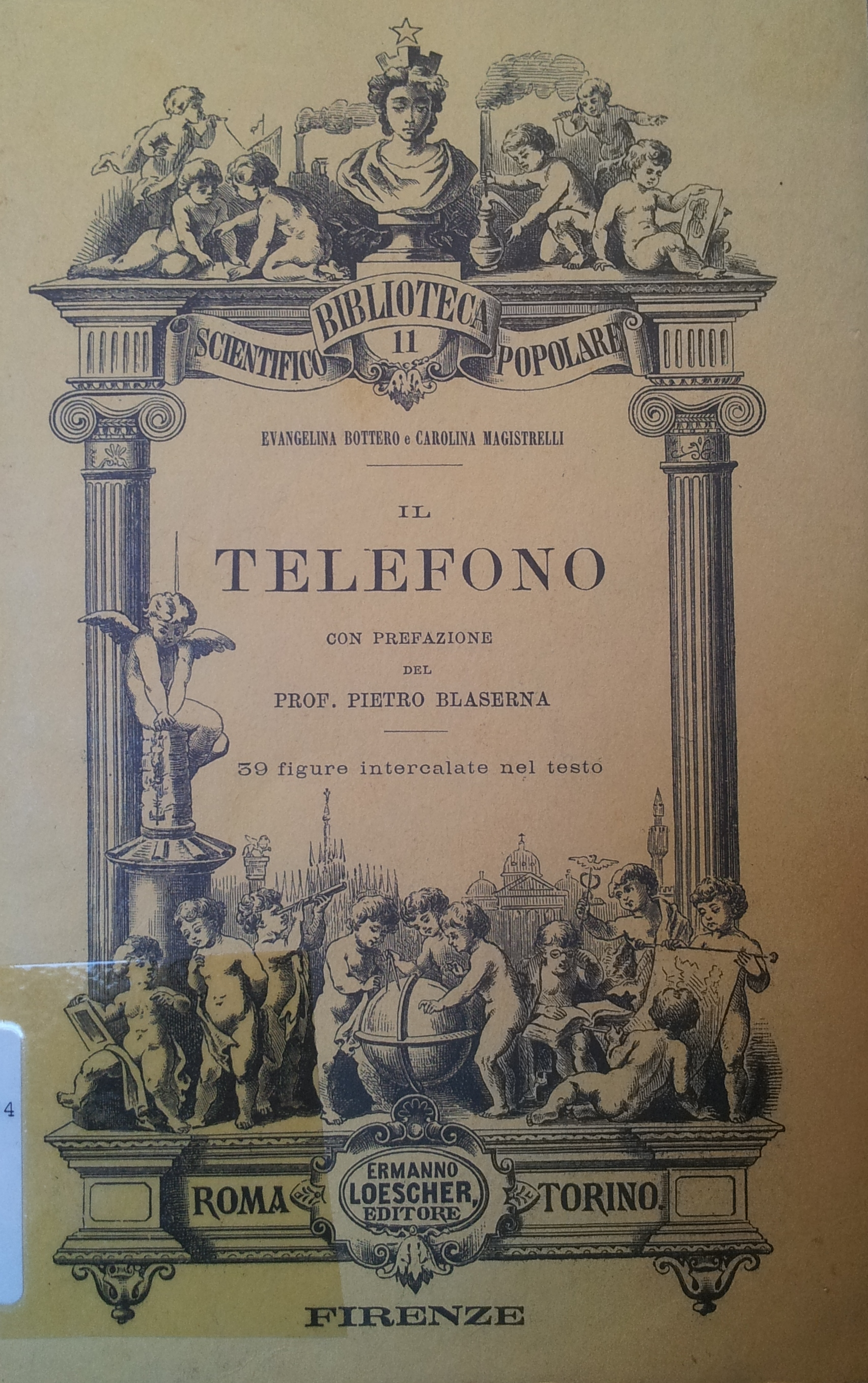 front cover of the book by Evangelina Bottero and Carolina Magistrelli, Il telefono (1883)